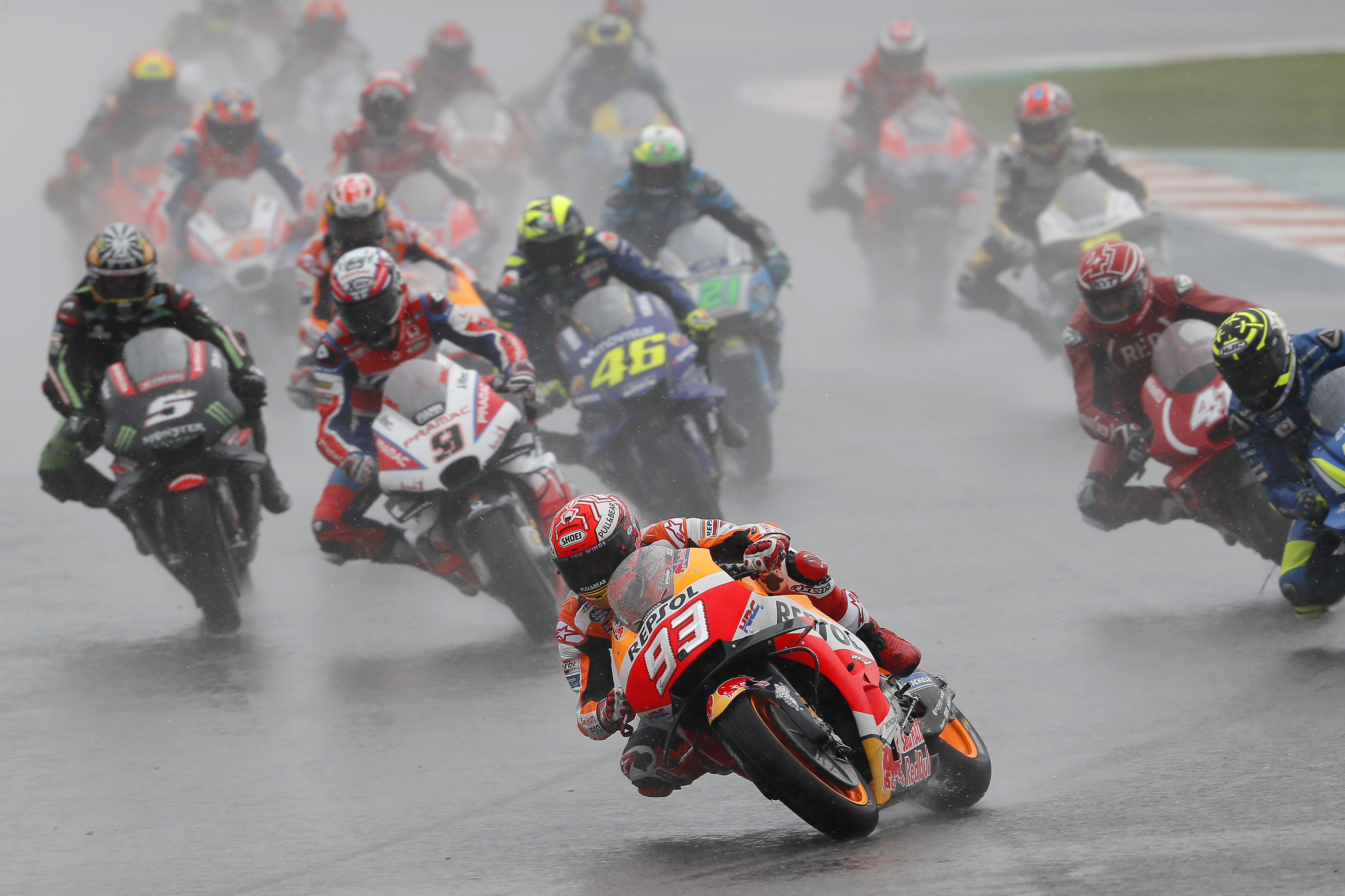 Marc Márquez, riding his Repsol Honda, leading the pack on the opening lap at the 2018 Valencian Community Grand Prix.